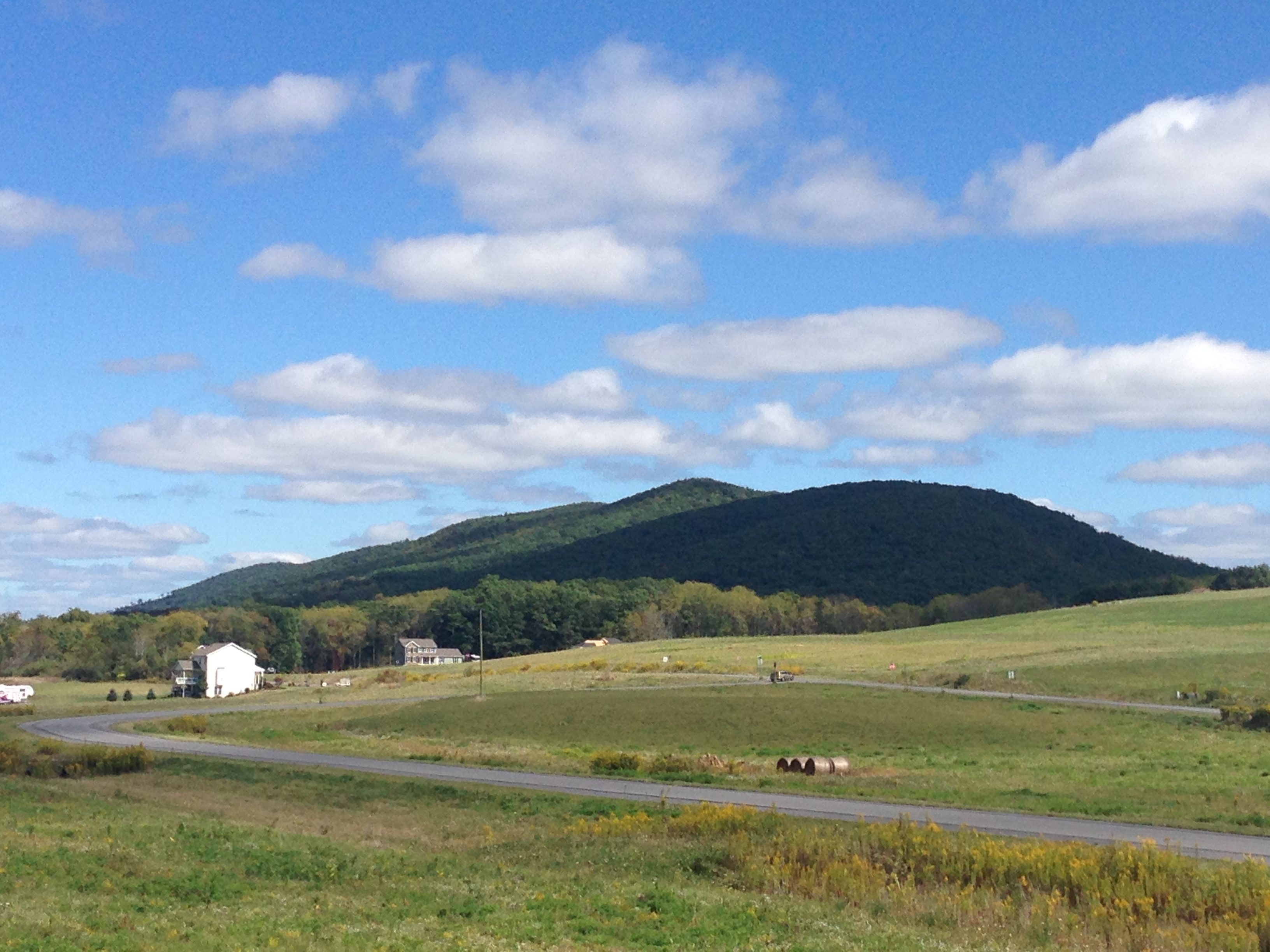 Egg Hill in PA from PA45